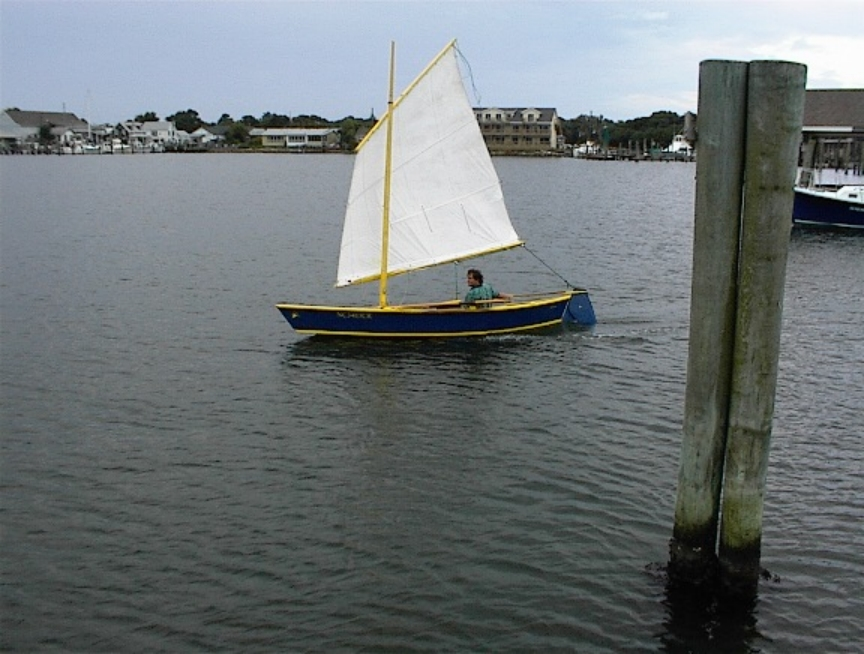 Lugsail on a Bolger Windsprint. "Bolger Windsprint sailing in Silver Lake Harbor, Ocracoke Island, North Carolina." (original description from source)